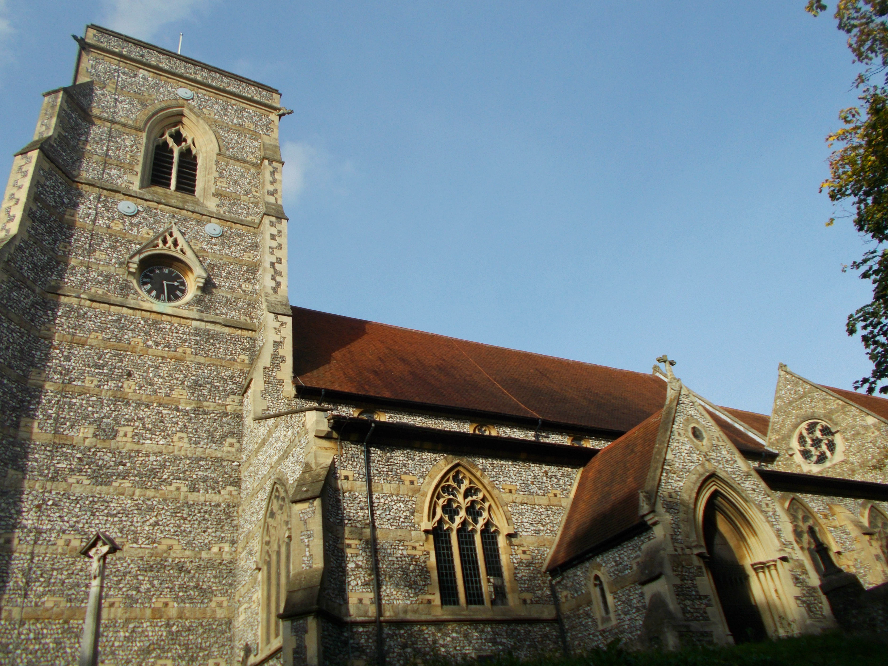 West tower, nave and south porch of All Saints' Parish church, Benhilton, Surrey, Greater London, seen from the south